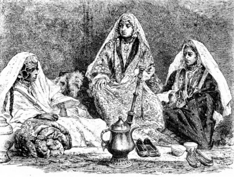 The number is a page number in the book, "Woman Triumphant"; the story of her struggles for freedom, education, and political rights. Dedicated to all noble-minded women by an appreciative member of the other sex by Author: Rudolf Cronau. (1919). The name of the image is the caption name. Follow the link from the image to the full book